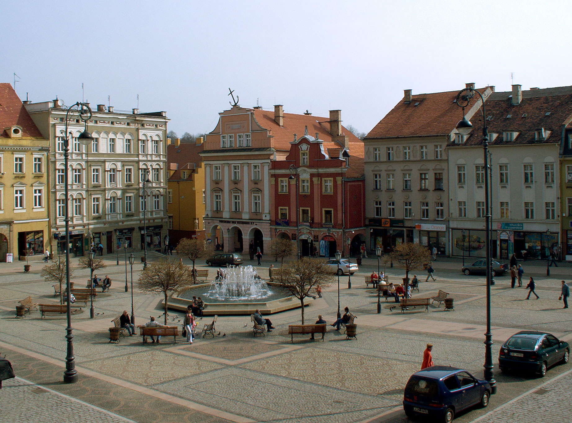 Market Square in Wałbrzych